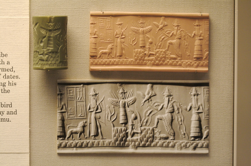 The Adda Seal. I had a wonderful day at the British Museum with CoryQ (of MonkeyRiverTown) and his wife Mary. These are everything I shot that day, unedited and uncleaned, except for shrinking them some to spead up the upload.